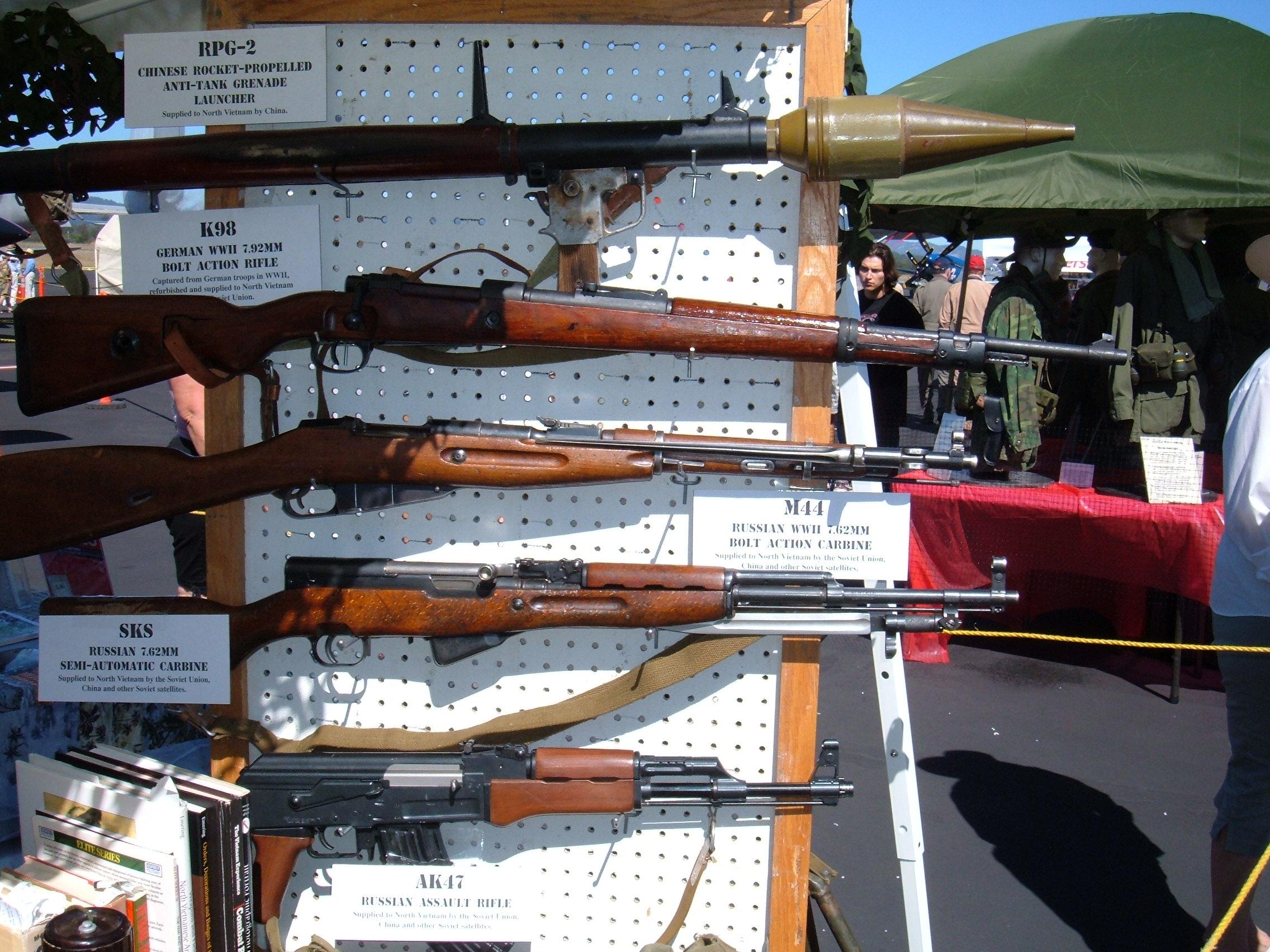 Sample weapons used by the National Front for the Liberation of South Vietnam, also known as the Việt Cộng. From top to bottom: RPG-2, Mauser K98, Mosin-Nagant M44, SKS, and AK-47. The AK47 is actually an airsoft version. Taken at the Wings over Wine Country 2007 air show at the Charles M. Schulz - Sonoma County Airport in Sonoma County, California.